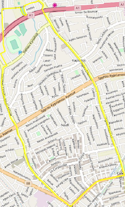 Map of Apostoloi Petros kai Pavlos.